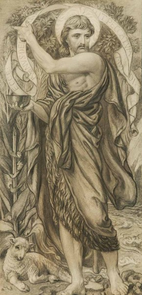 Cartoon of St John the Baptist by Frederic Shields for St Elizabeth's church, Reddish